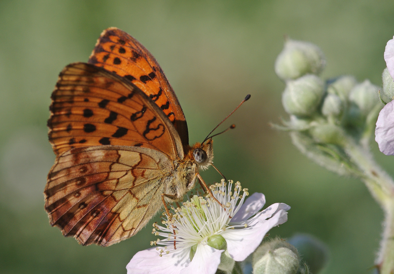 Wing underside view of a marbled fritillary butterfly (Brenthis daphne). Manisa, TurkeyTürkçe: Böğürtlen brentisi (Brenthis daphne) kanat altı görünümü. Manisa, Türkiye.